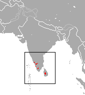 Asian Highland Shrew (Suncus montanus) range with colonial borders